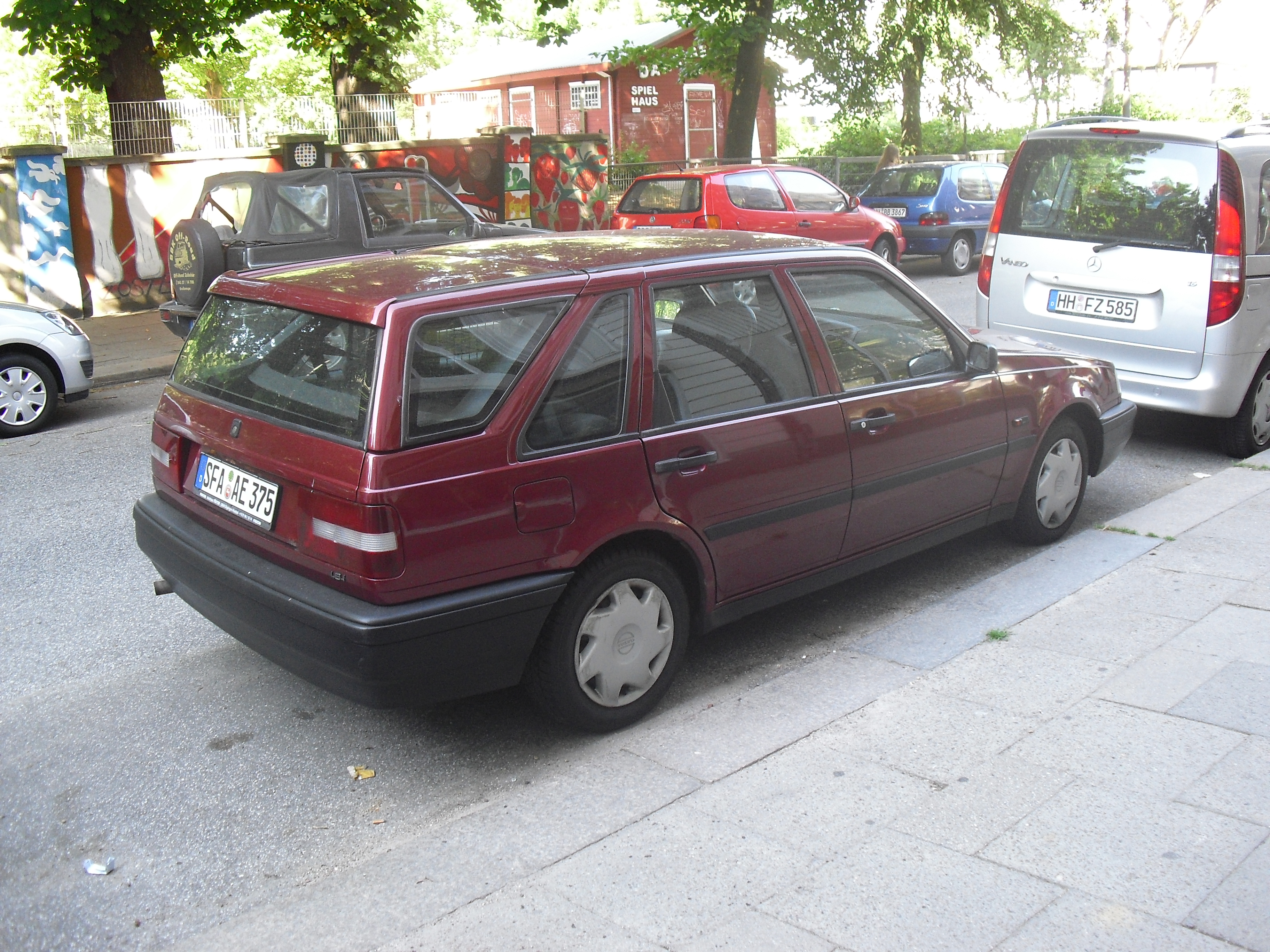 Volvo 440 Estate, made by Toncar